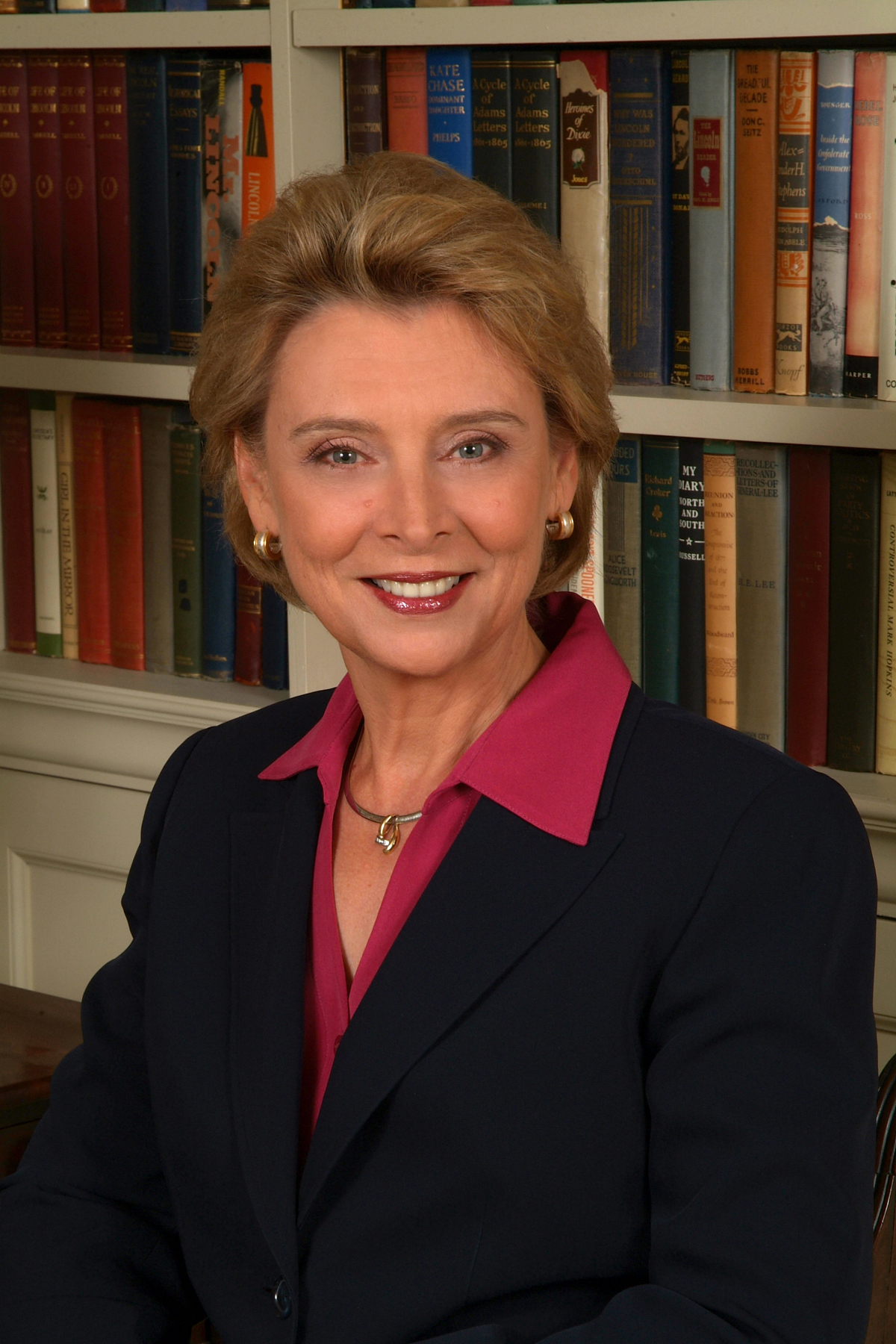 Photo of Christine Gregoire, Governor of Washington since 2005.